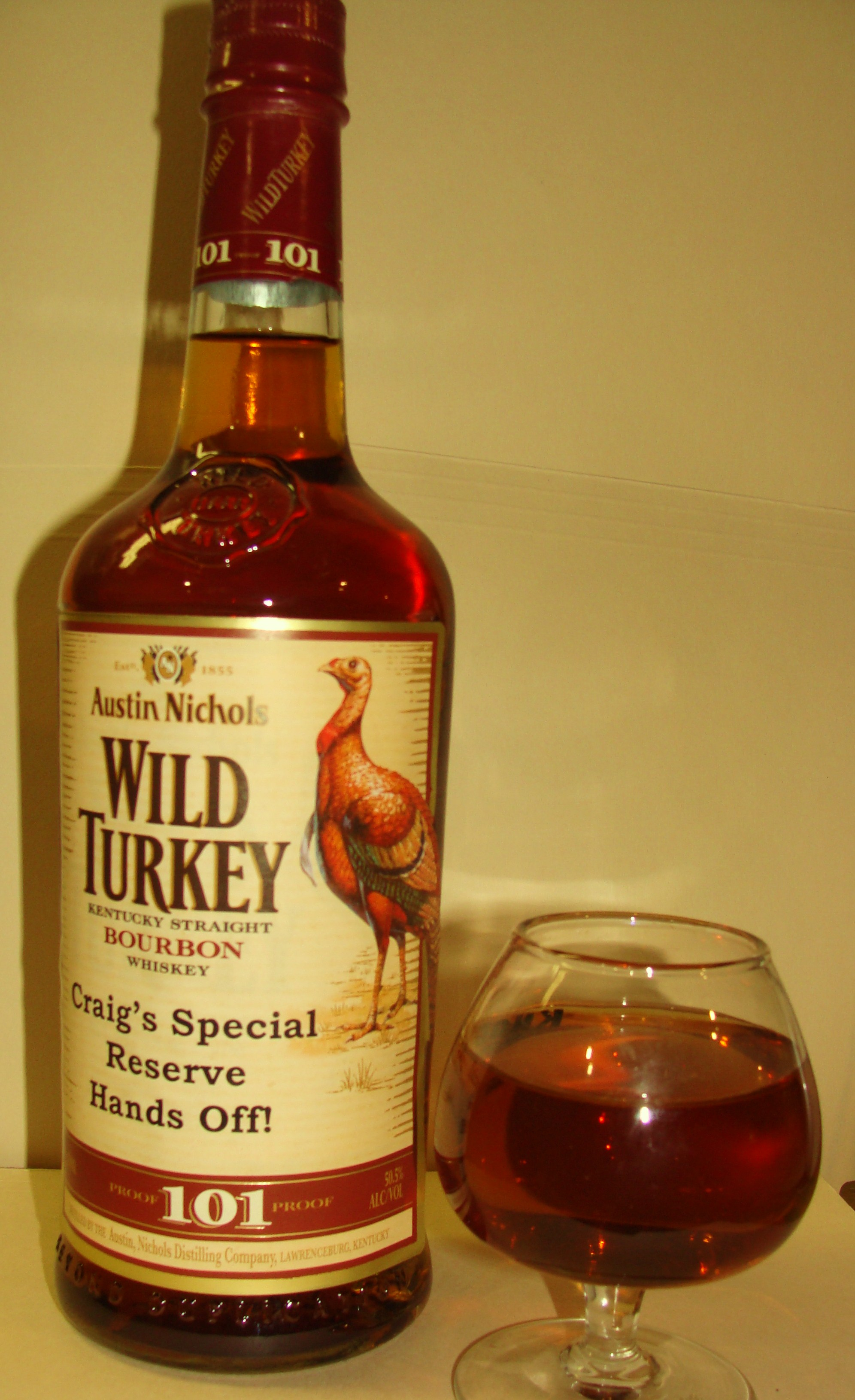 Wild Turkey